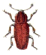 Pycnomerus terebrans, from Calwer's Käferbuch, Table 15, Picture 2. Taxonomy was updated to 2008, using mostly the sites Fauna Europaea and BioLib. Please contact Sarefo if the determination is wrong!